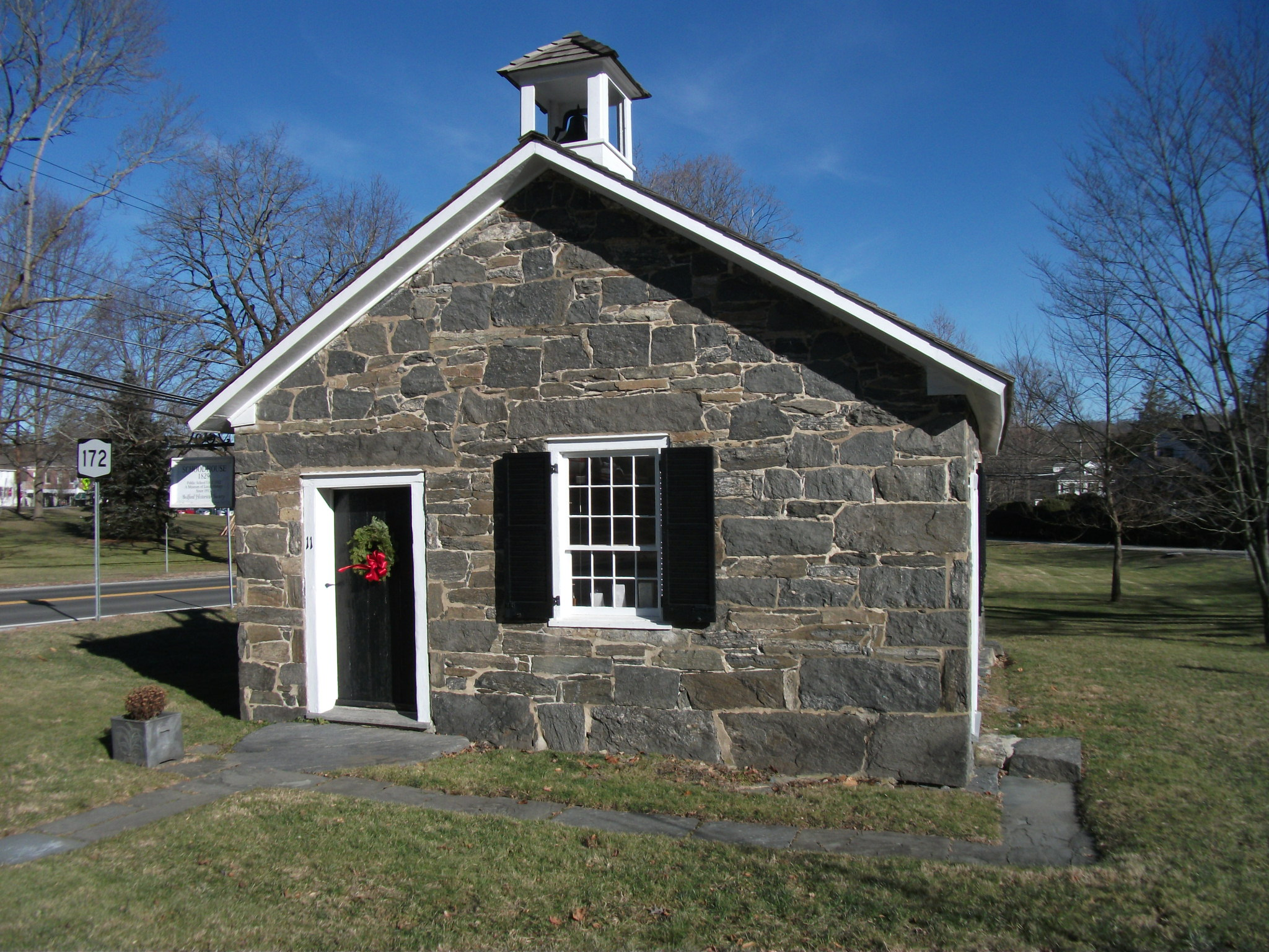 Schoolhouse in the Bedford Village Historic District